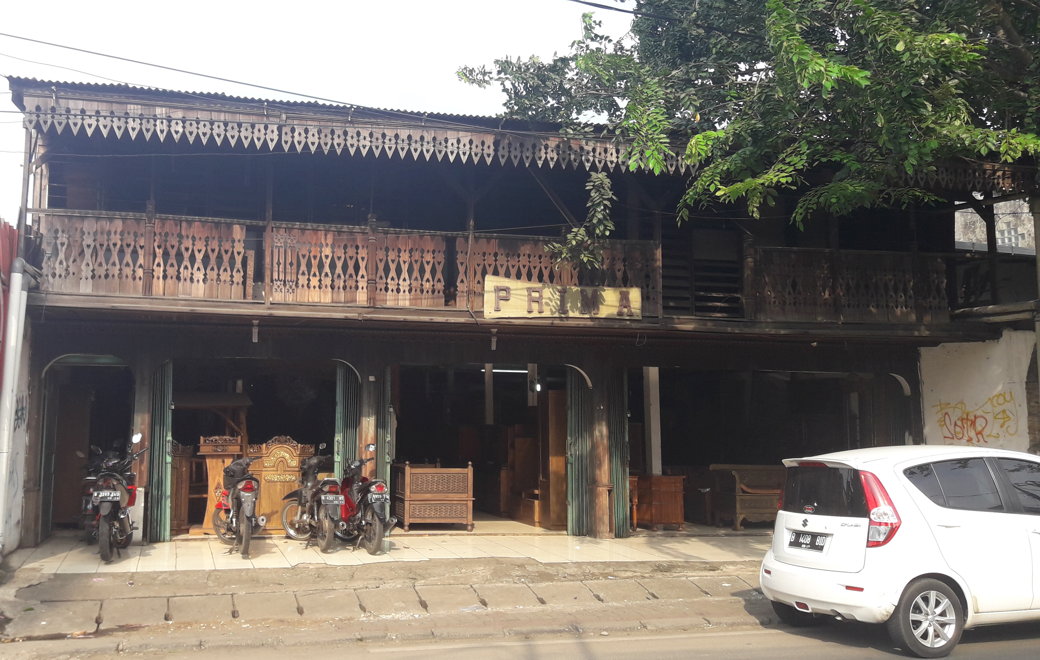 gigi balang